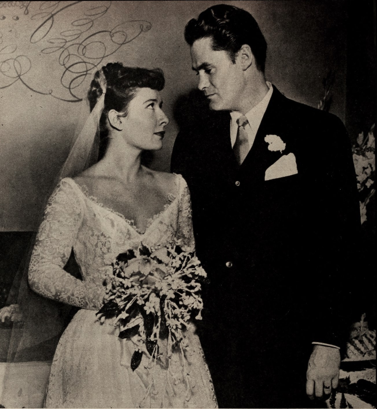 Teri Keane with her husband John Larkin, 1950